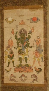 Photograph of a Koshin scroll